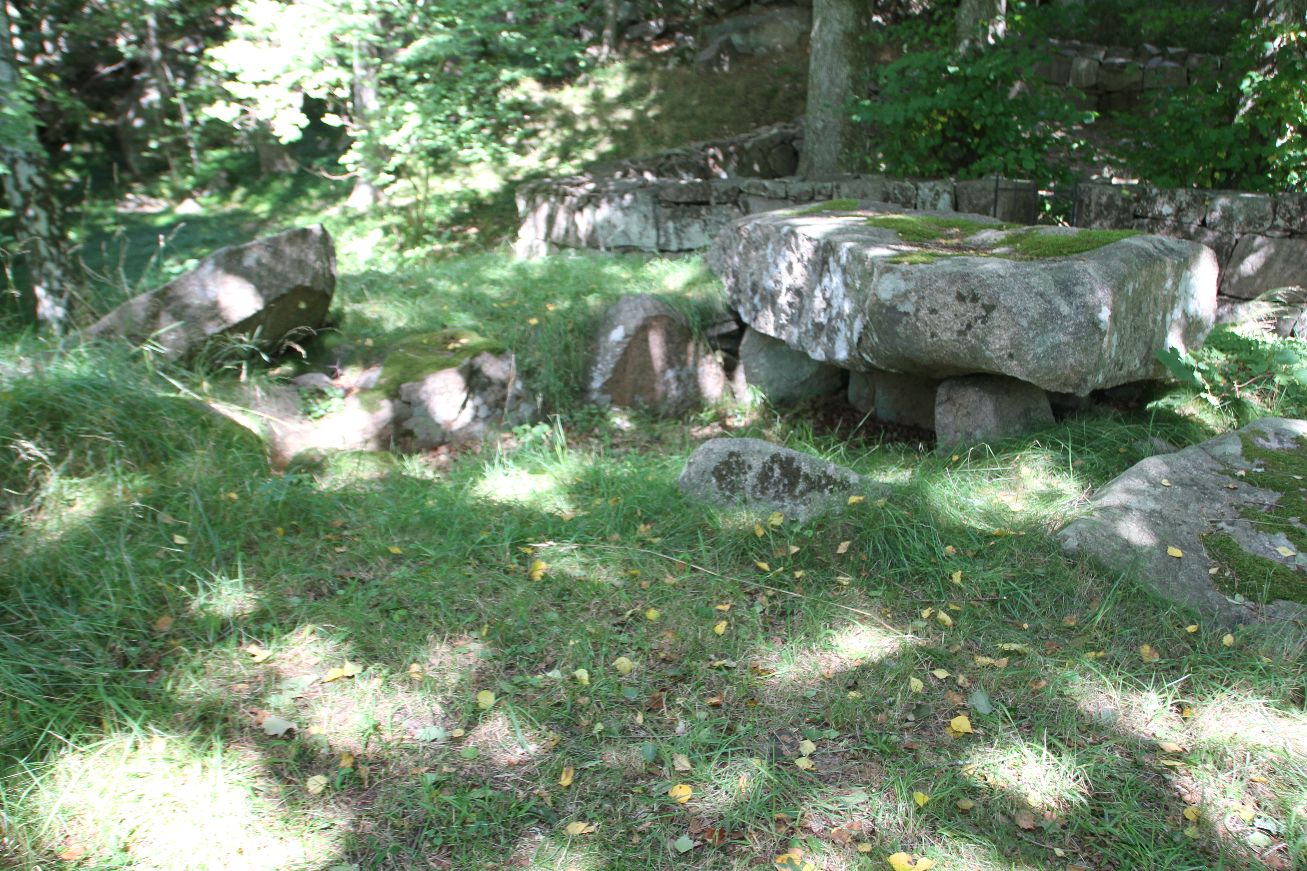 The "Glose Altare" 5000 year old stone chanber grave near Åby in Sotenäs, Bohuslen, western Sweden